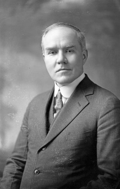 Senator Fred W. Hastings